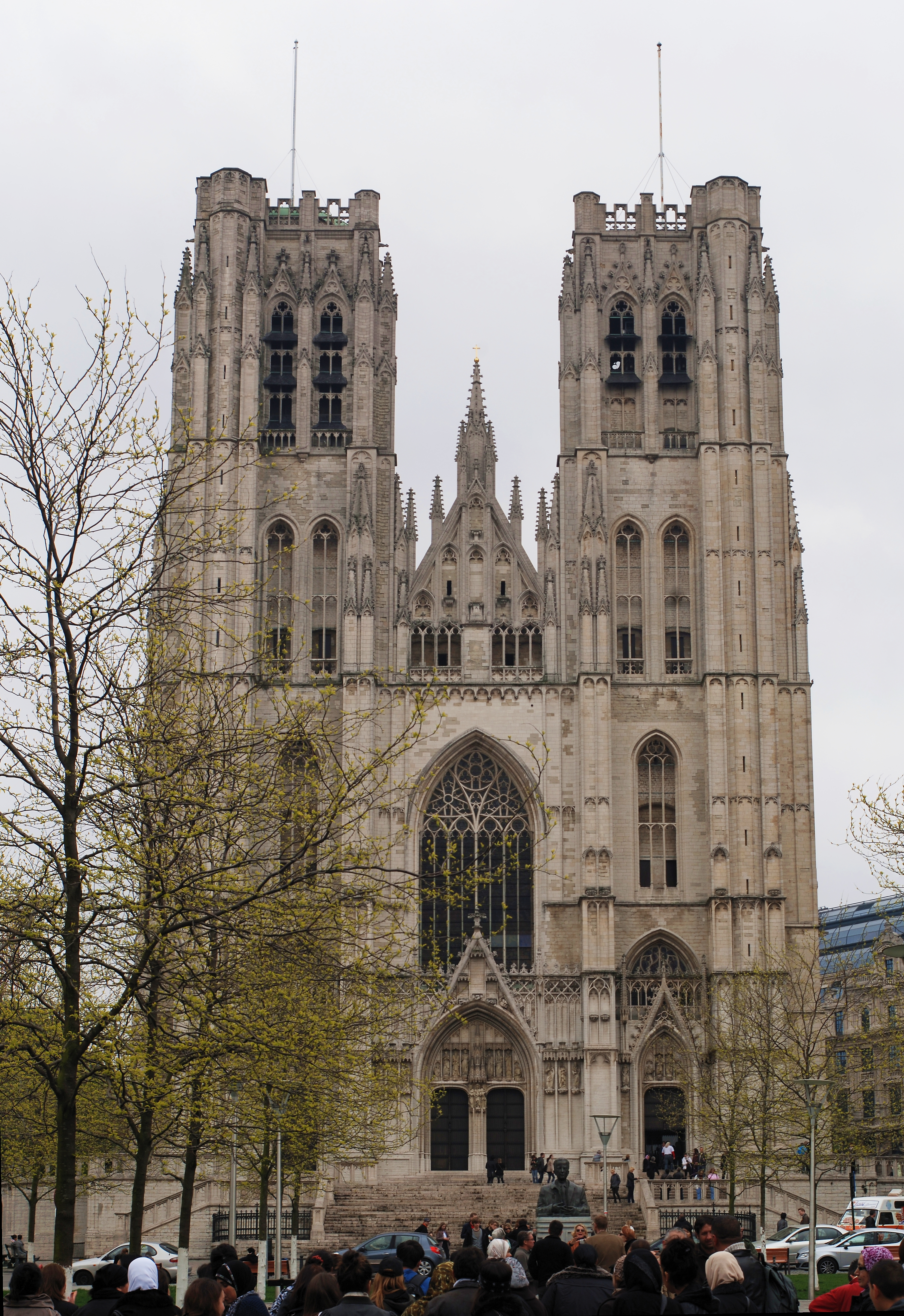 Cathedral od Saints-Michel-et-Gudule, Brussels